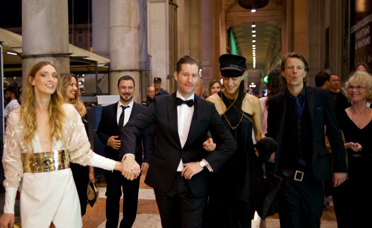 Emilio Insolera, Carola Insolera, Esther Perbandt, Alexander Scheer, Maria Cristina, Drovetta Insolera and Danyk Amyot at the World Premiere of Sign Gene